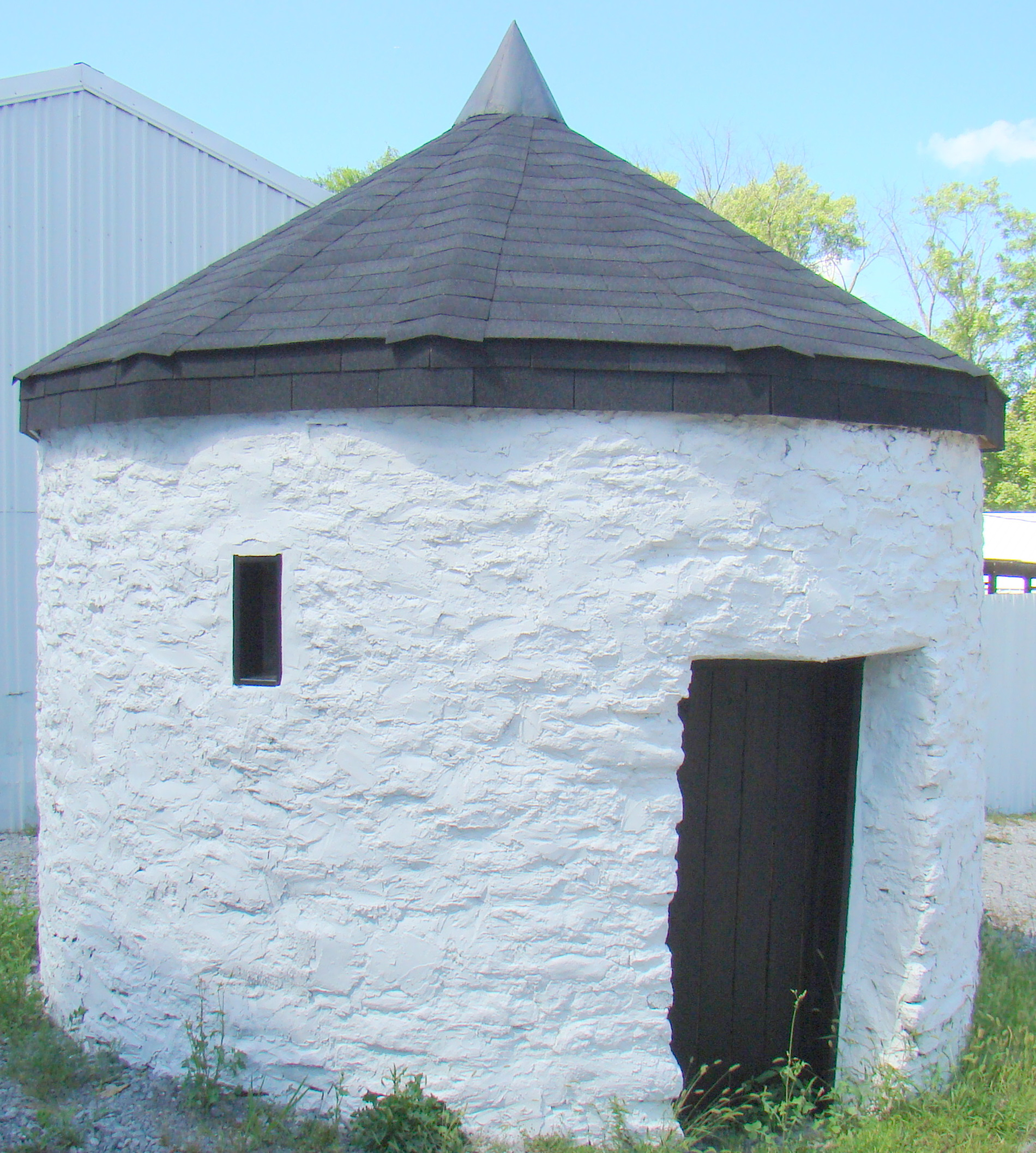 Reitman's Smokehouse in Camp Springs, Kentucky, an unincorporated area of rural Campbell County, Kentucky.